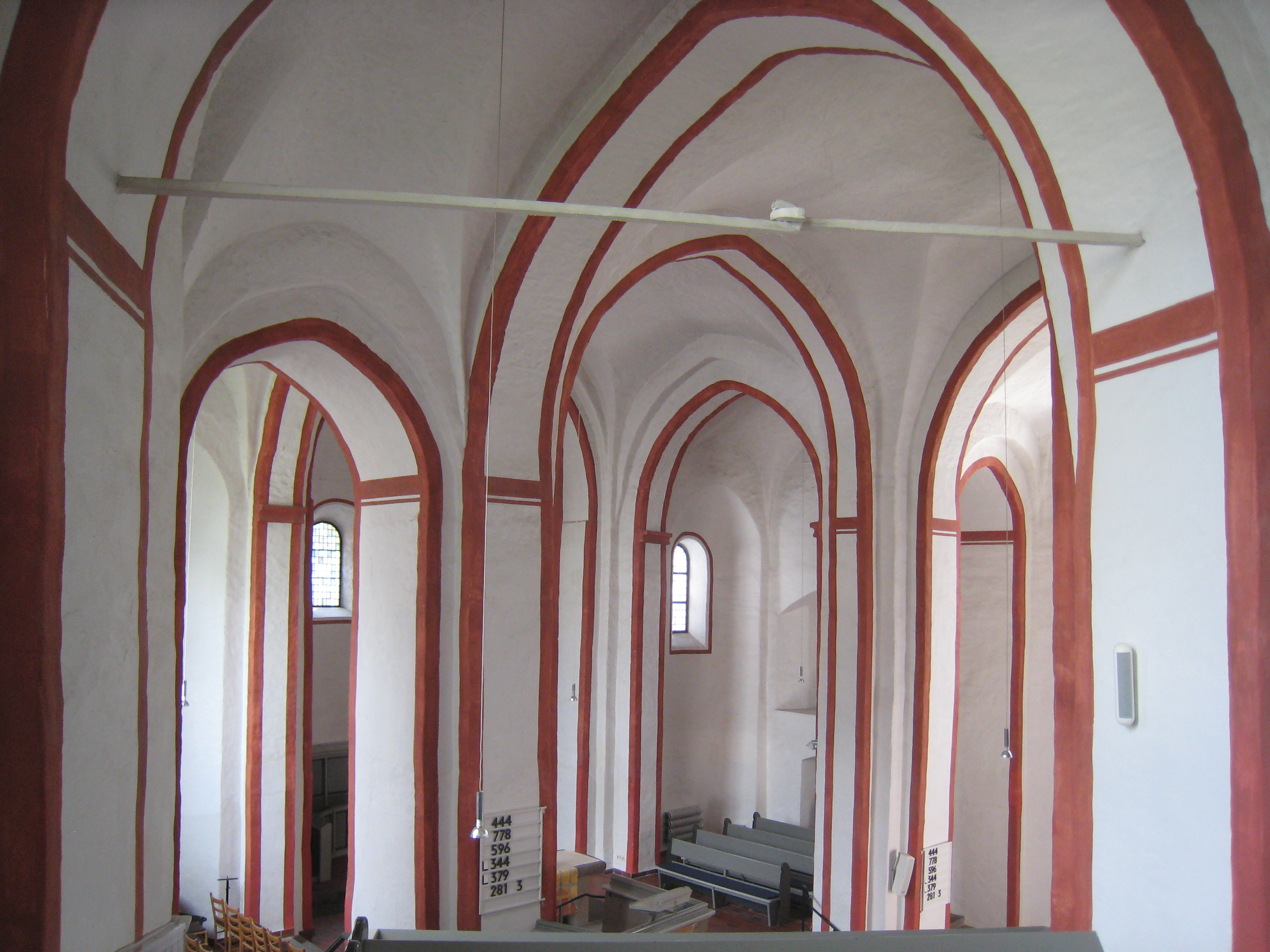 View from the northern gallery to east This is a photograph of an architectural monument.It is on the list of cultural monuments of Siegen